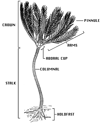 General morphology of a stalked crinoid